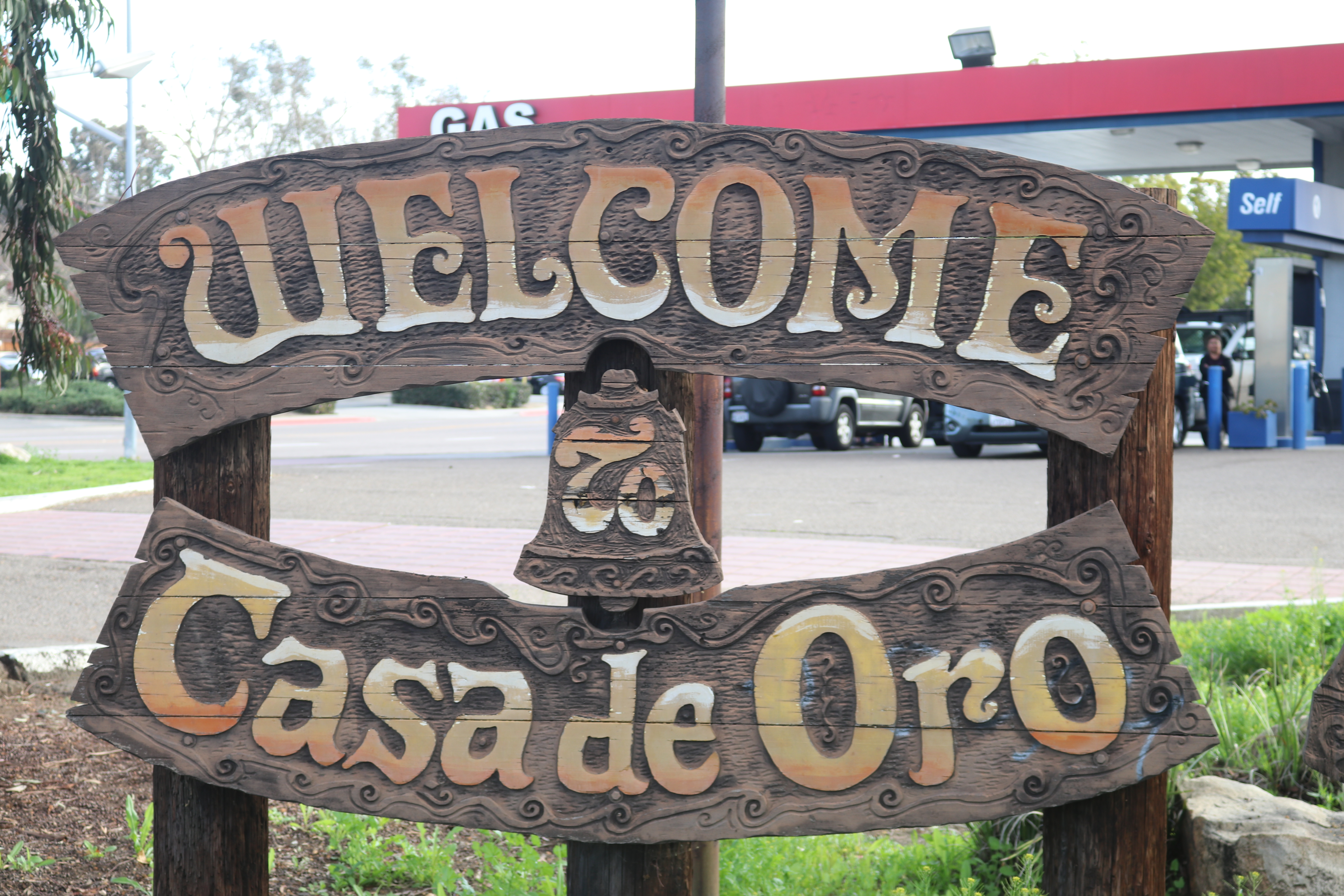 This sign welcomes you to Casa de Oro, California as you approach from the 94 highway Kenwood exit and merge on Campo Road to the business district which is called the gateway to Mt. Helix. The sign was dedicated July 4th, 1972 by the Casa de Oro Business Association.